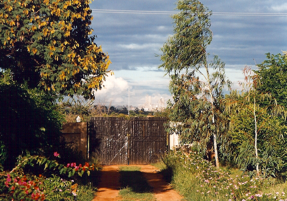 Driveway in a garden in suburban Bulawayo, Zimbabwe, after good rains. Faintly in the distance is Cement, the big cement works on the Harare Road. The garden gates hide the intervening Killarney squatter camp, which was quite small at this time. Taken c.1996 on film.